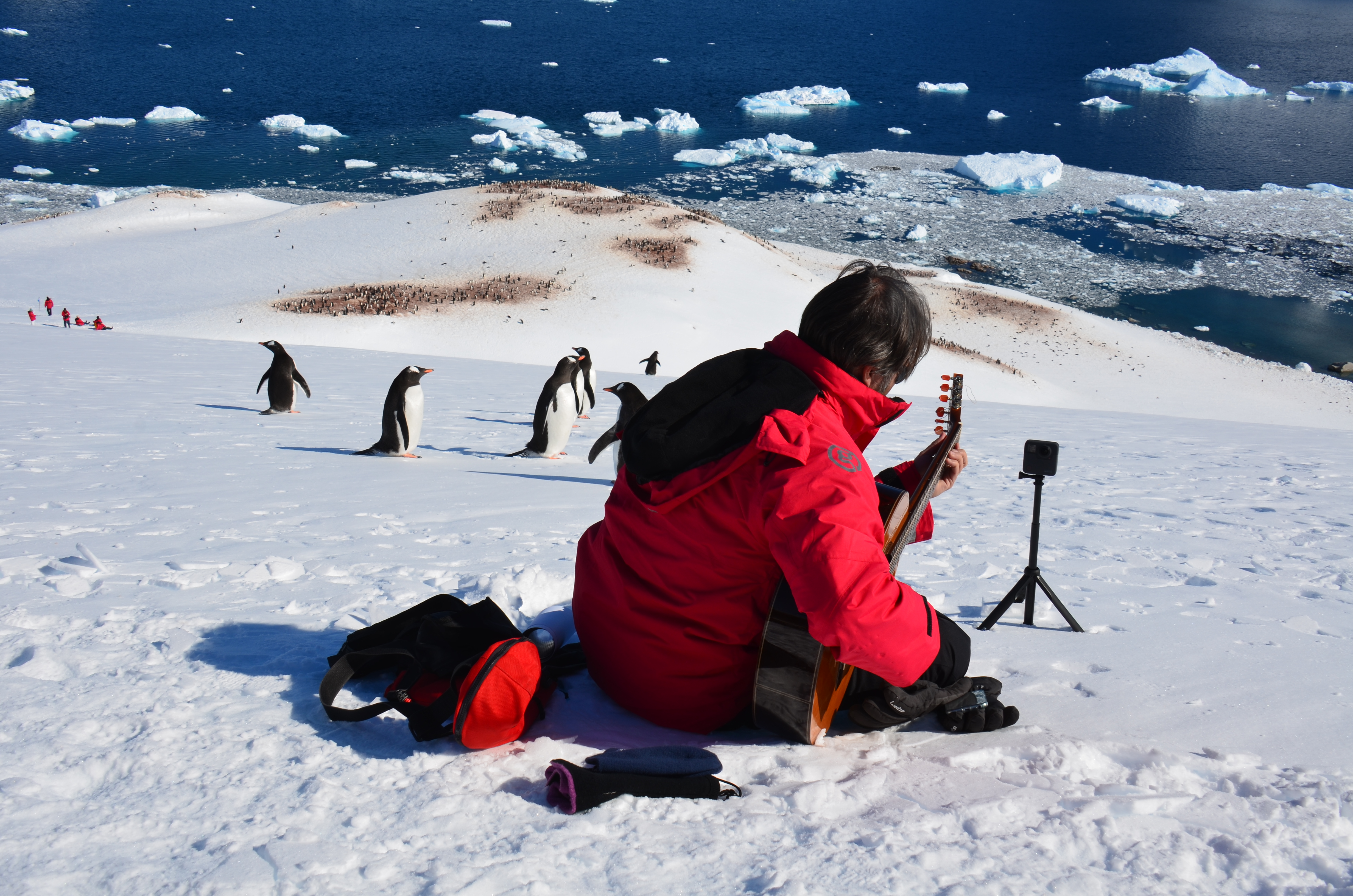 Spanish musician Rafael Serrallet had a world tour in 2018 that included Antarctica.